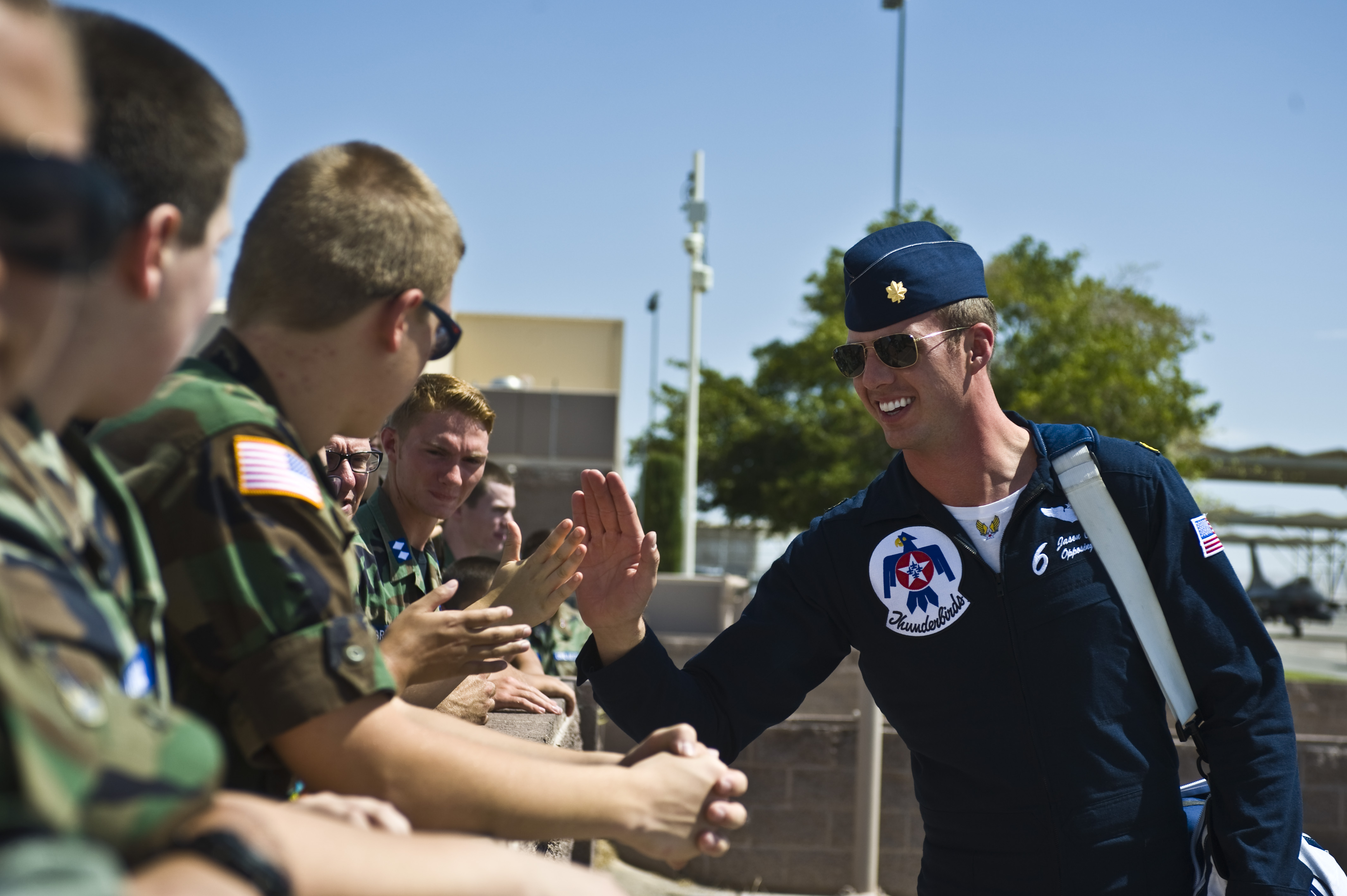 Maj. Jason Curtis, U.S. Air Force Air Demonstration Squadron no. 6 pilot, interacts with Civil Air Patrol cadets at Nellis Air Force Base, Nev., Aug. 18, 2014. The CAP cadets were visiting the base to tour the Thunderbirds museum and the Threat Training Facility to gain more insight about the Air Force. (U.S. Air Force photo by Senior Airman Christopher Tam)